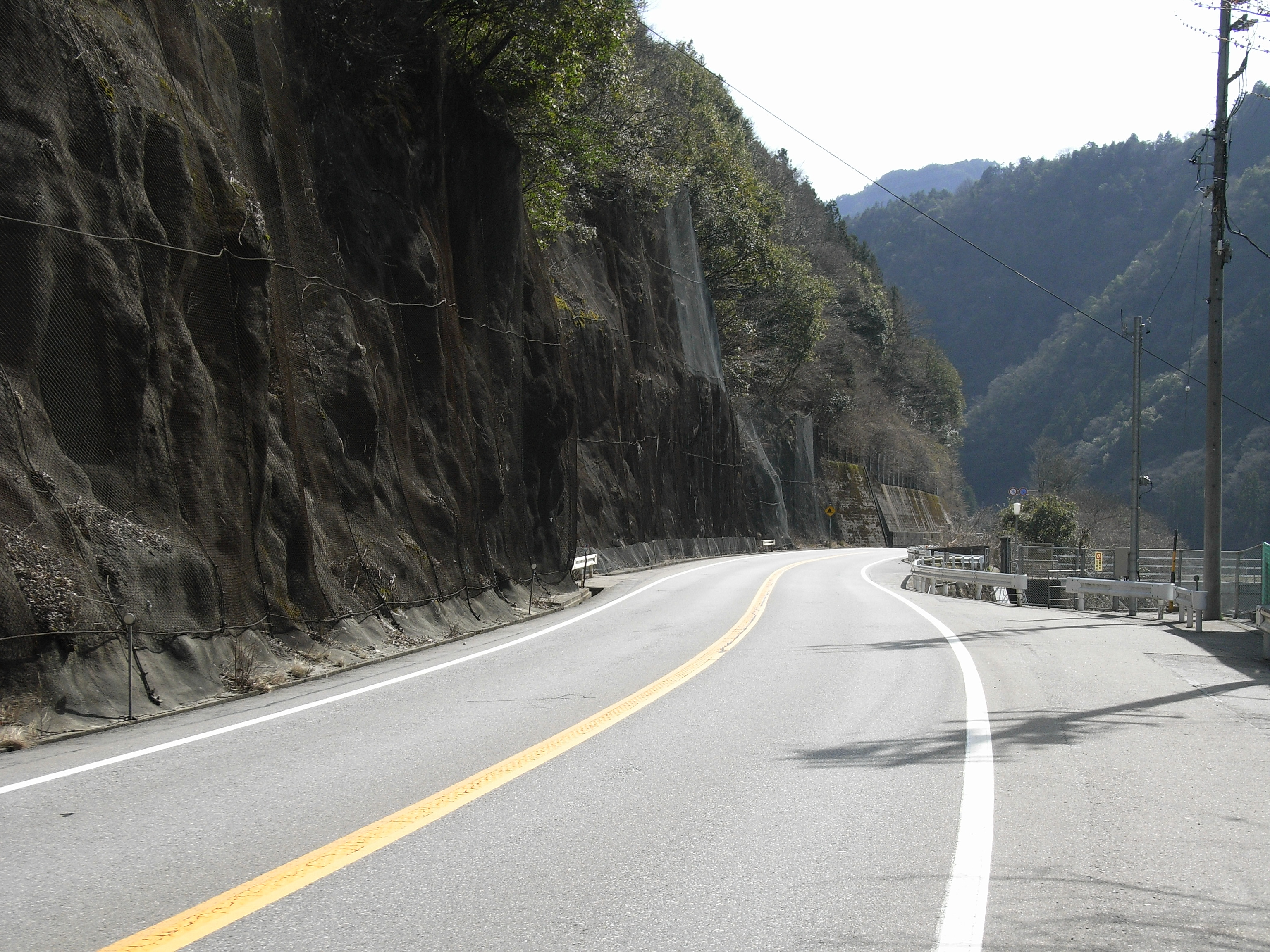 Route